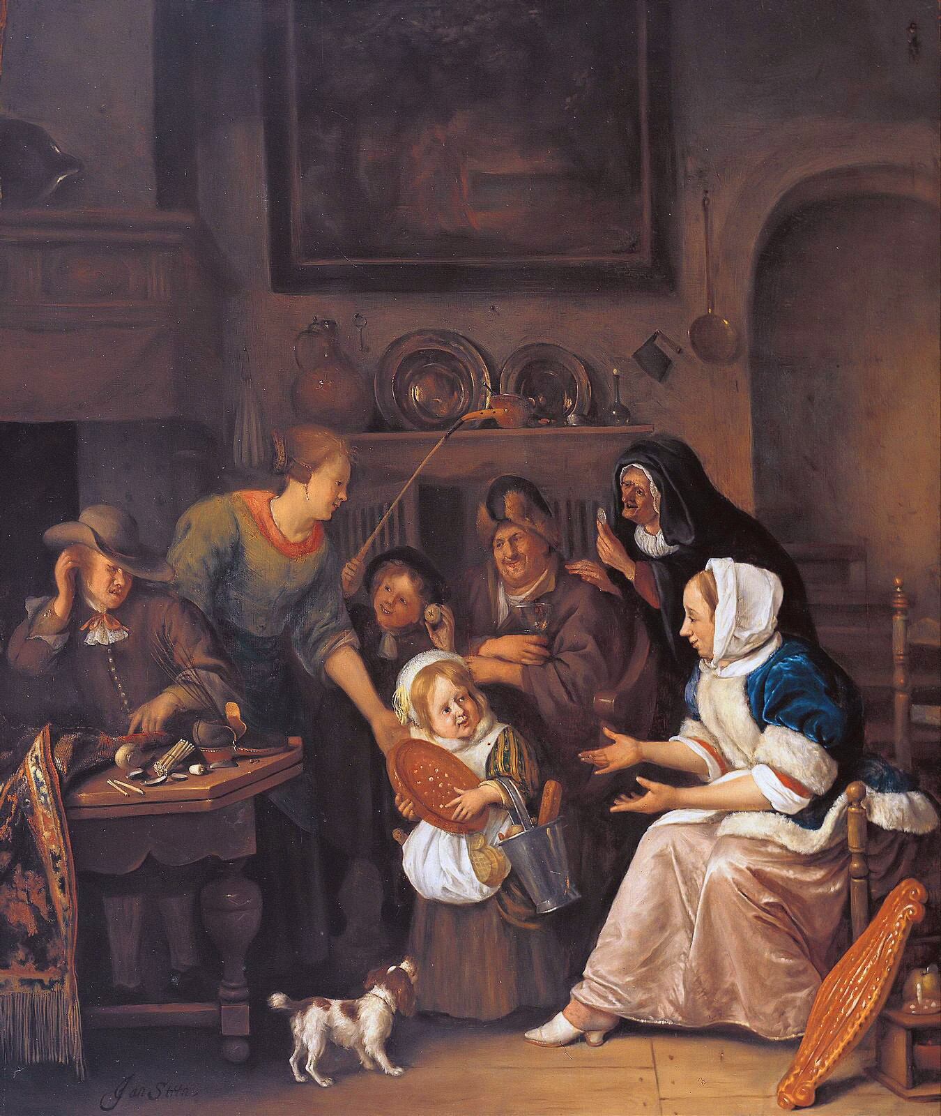 Two versions exist of Jan Steen's Sinterklaasavond. The best known copy of these (now kept in the Rijksmuseum Amsterdam) was made for a catholic. The girl in the center was given a doll dressed up as a saint. In this version, apparently made for a protestant, the girl was given a simple round piece of gingerbread.